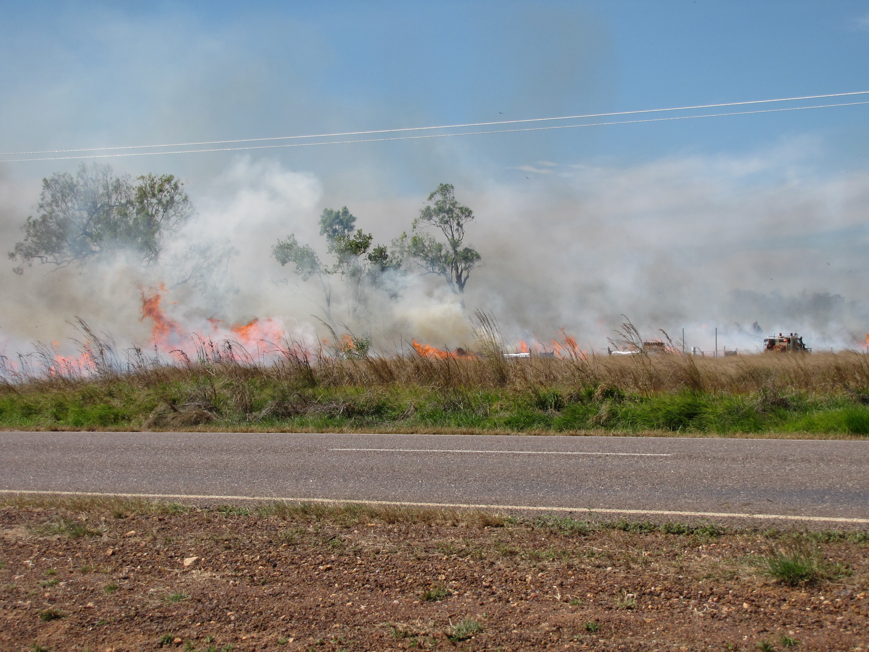 Fire at Hillview, a property to the north of Adelaide River on the Stuart Highway. Two helicopters, an Air Tractor fixed wing aircraft and four rural fire brigade appliances were necessary to bring the blaze under control.